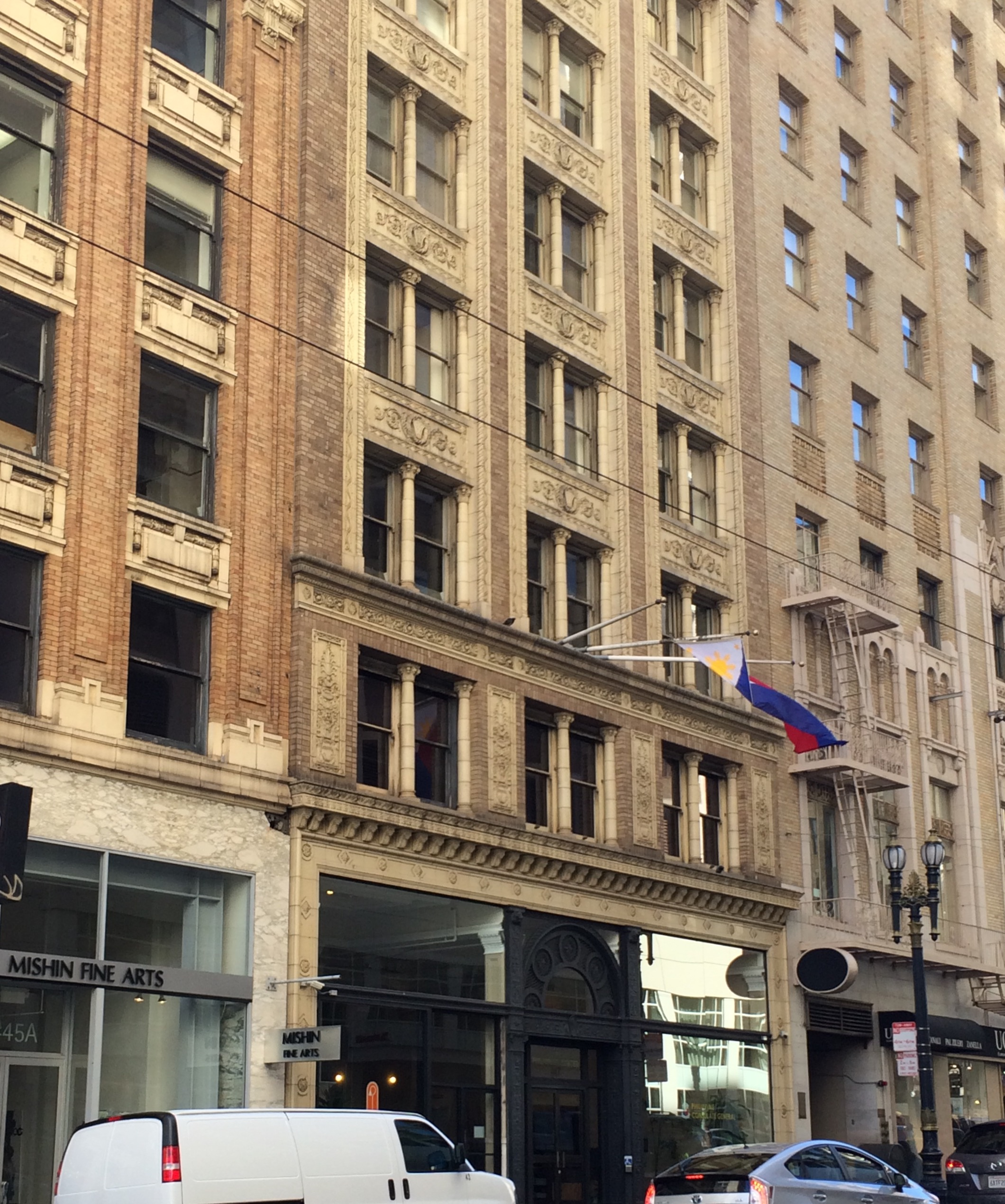 Consulate-General of the Philippines in San Francisco